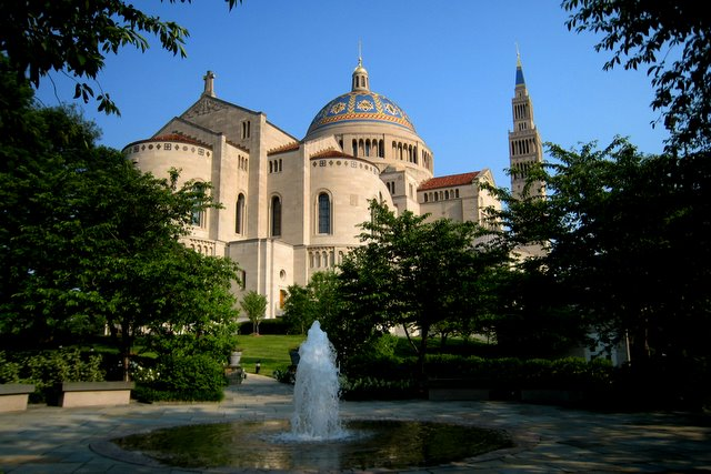 Mary's garden, Basilica of the National Shrine of the Immaculate Conception, Washington, D.C.